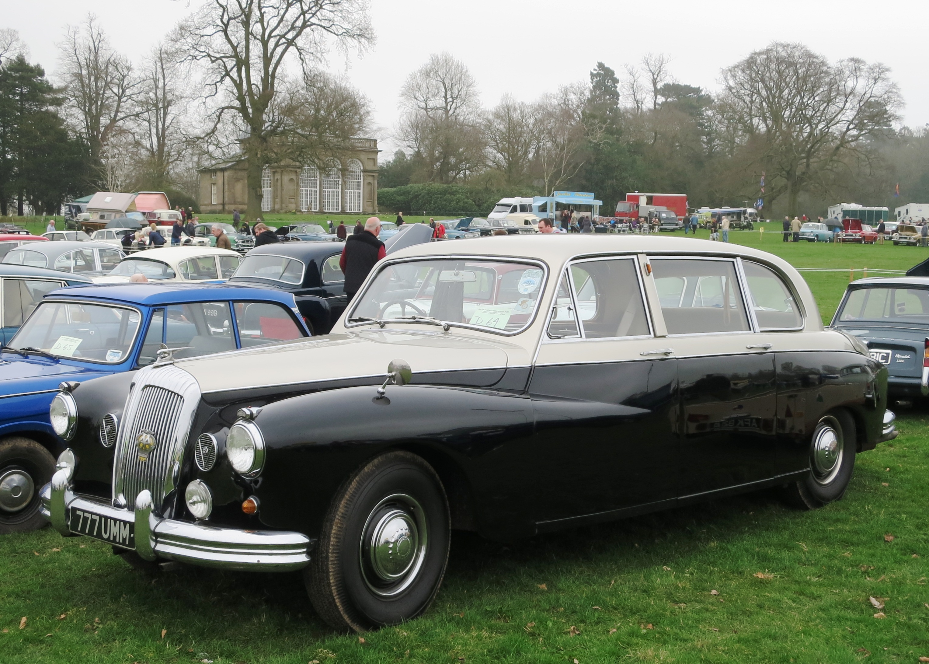 Daimler DR450 at Weston